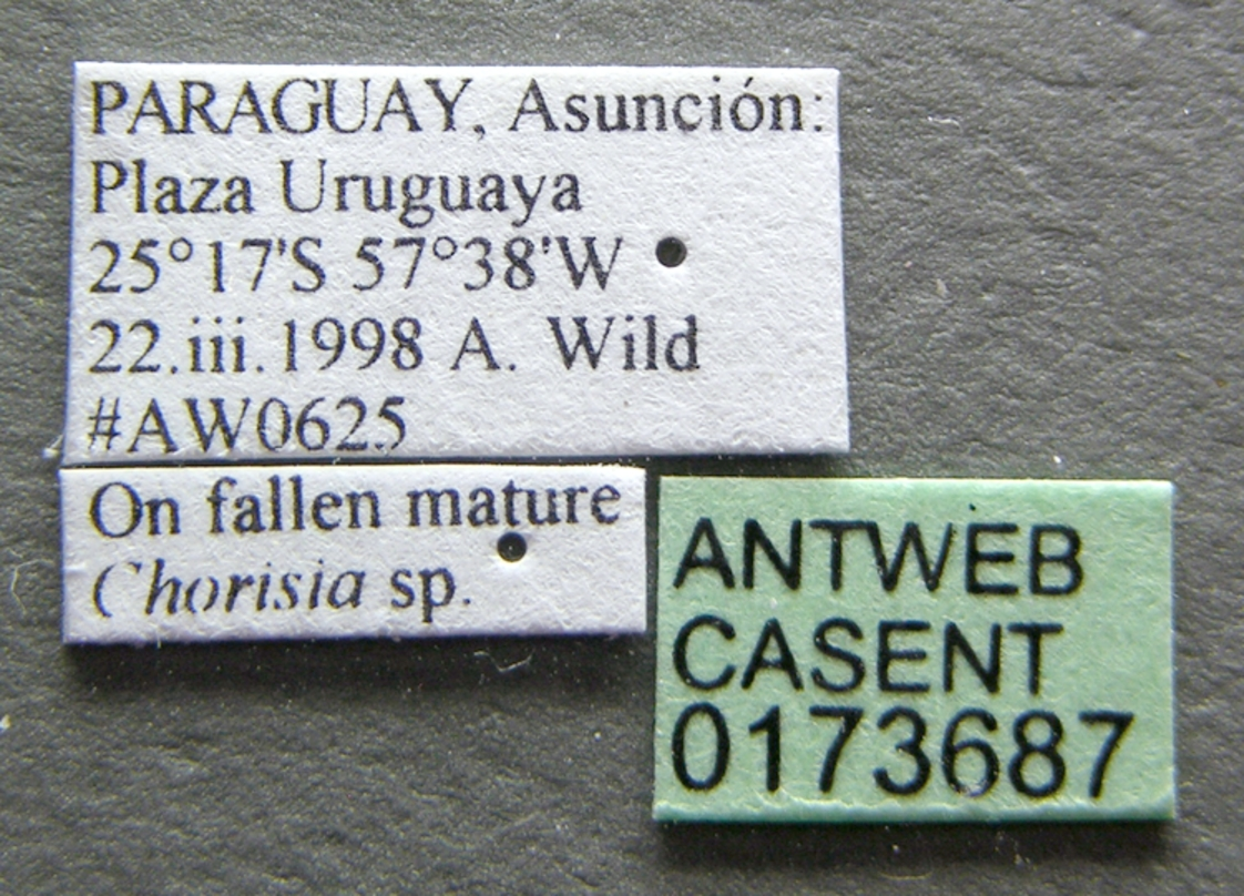 Label view of ant Cephalotes maculatus specimen casent0173687.